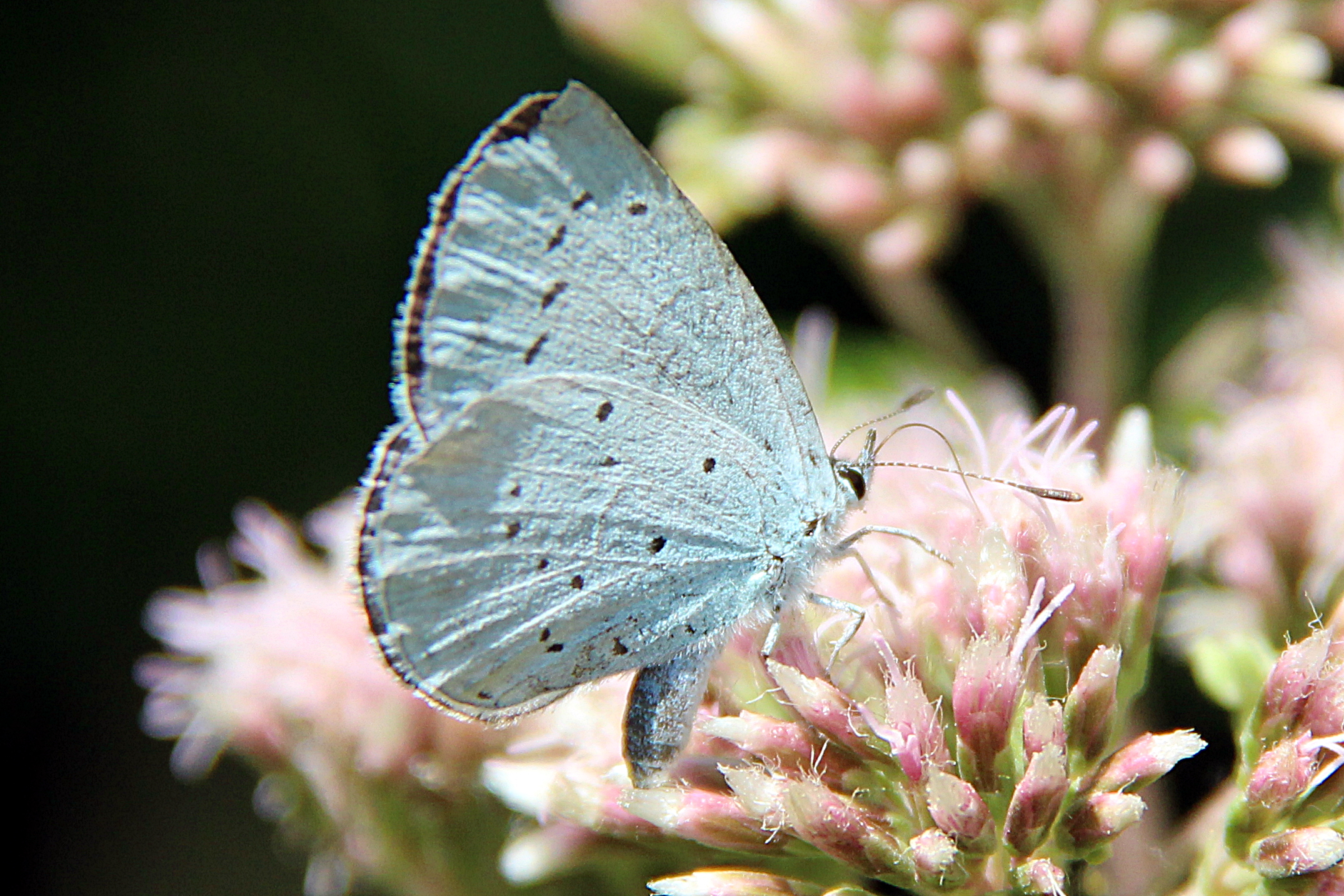 Holly Blue, Celastrina argiolus - Havré (Belgium).